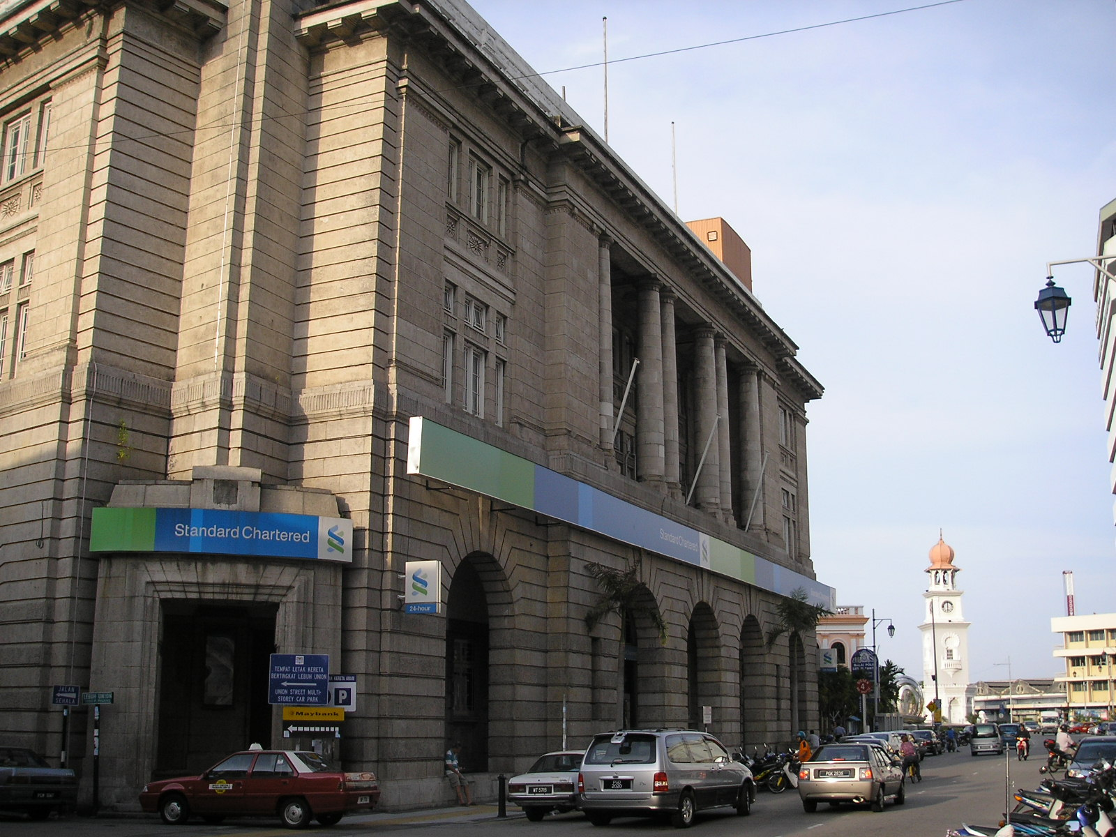 Image of the Standard Chartered Bank building at Beach Street in George Town, Penang.